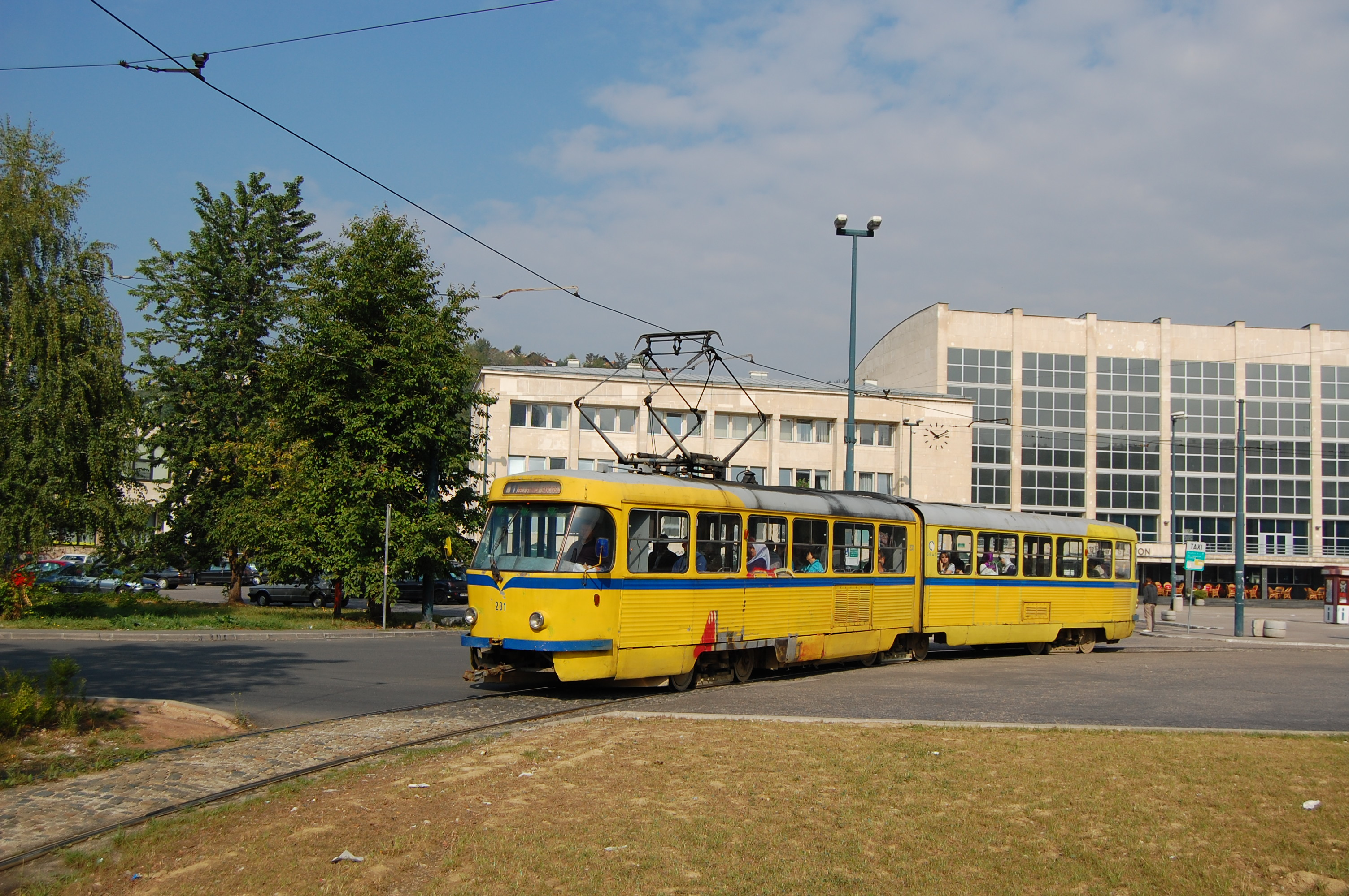 Tram #231, Line #1, September 24, 2011